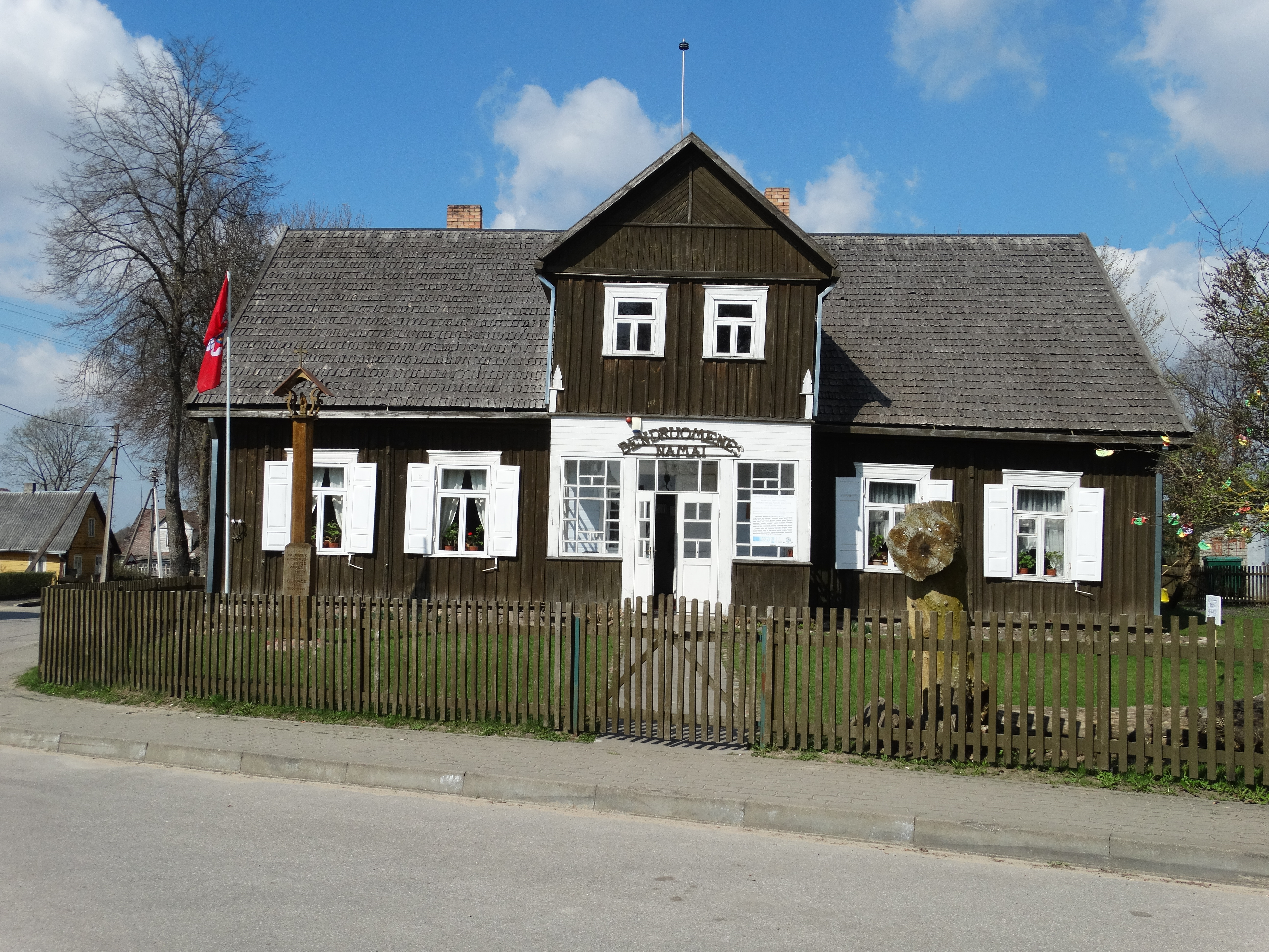 Community house, Betygala, Raseiniai district, Lithuania